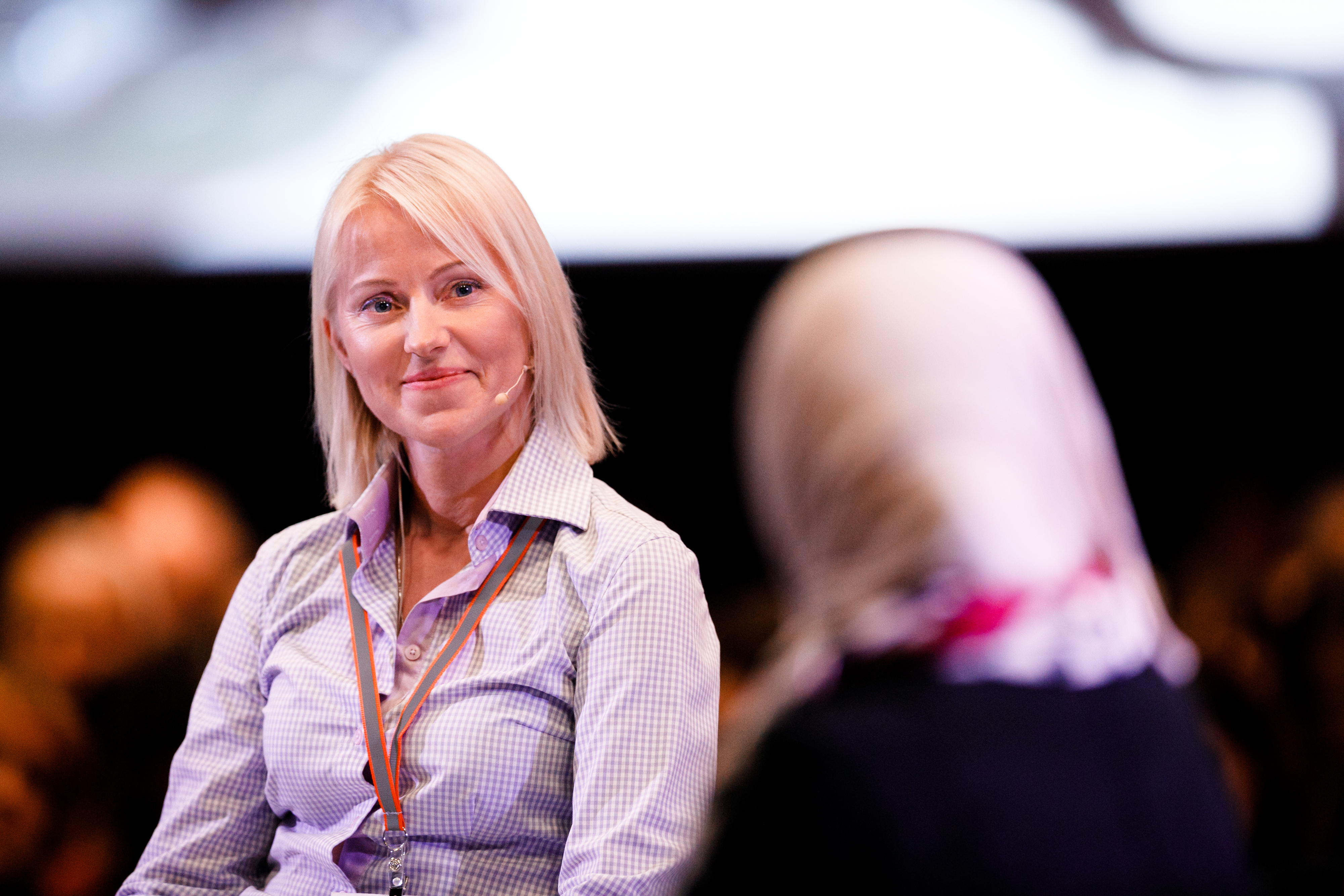 The Estonian journalist Hille Hanso moderating a panel at the annual conference of the Estonian Institute of Human Rights in Tallinn on 10 December, 2019.